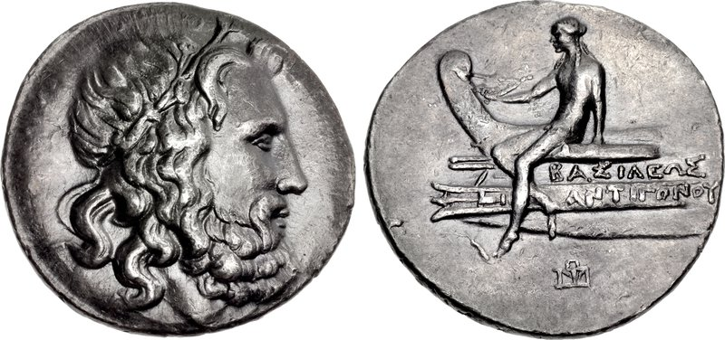 Antigonos III Doson. 229-221 BC. AR Tetradrachm (31mm, 17.05 g, 12h). Amphipolis mint(?). Struck circa 227-225 BC. Wreathed head of Poseidon right / Apollo seated left on prow left, holding bow; monogram below.